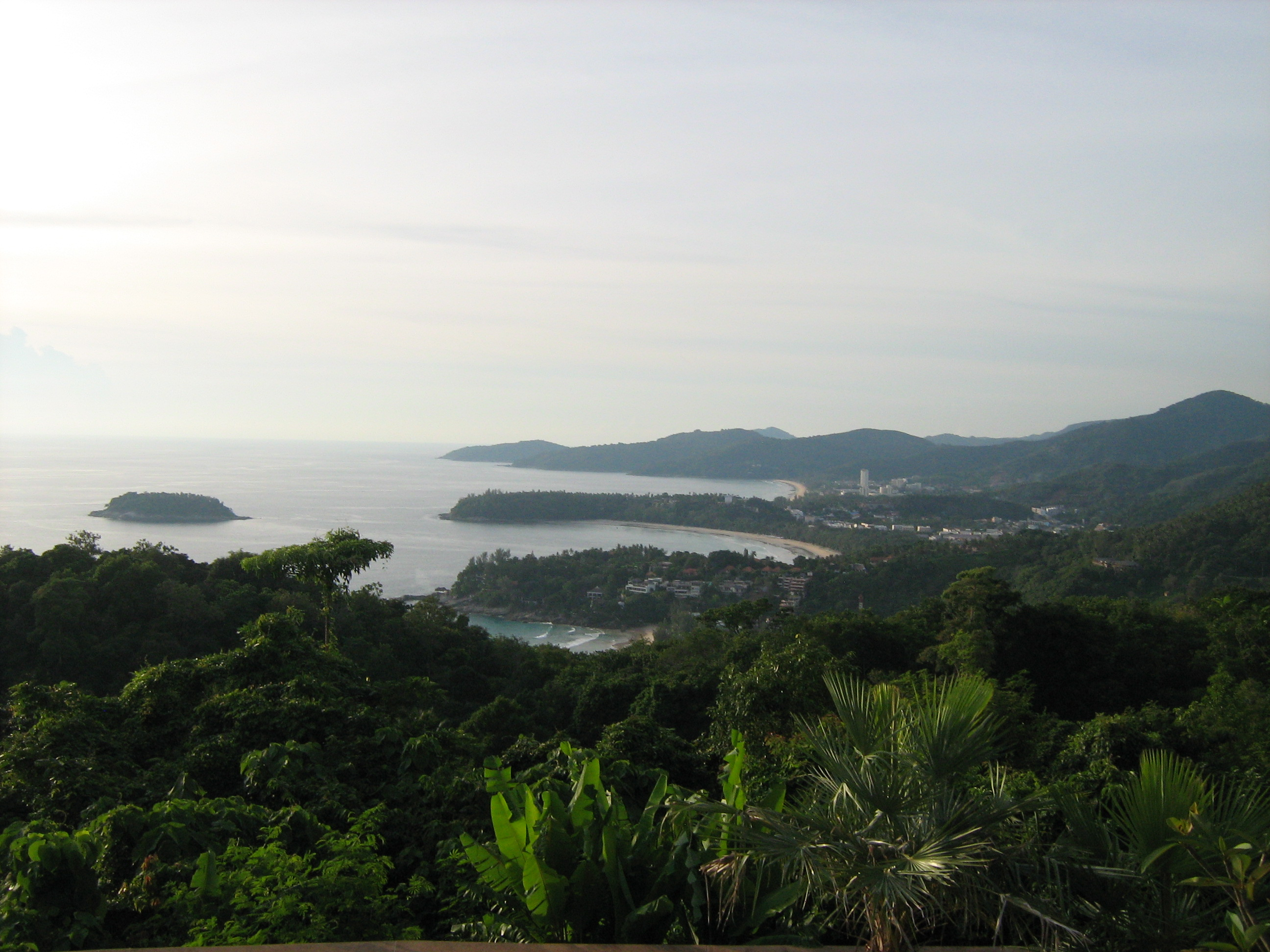 Nice View on Phuket